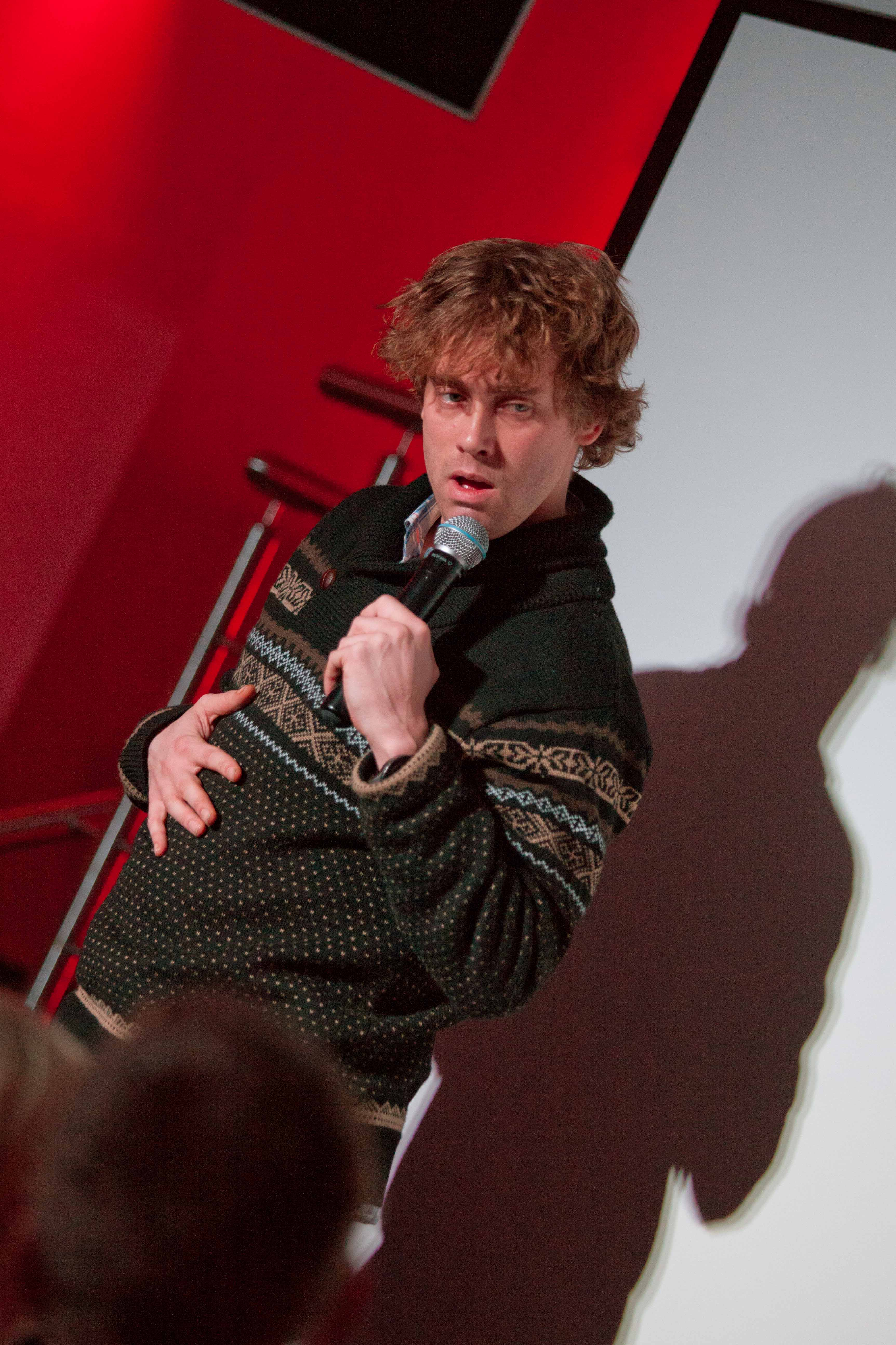 Dex Carrington standup at Venture Cup Kickoff 2011 in Bergen